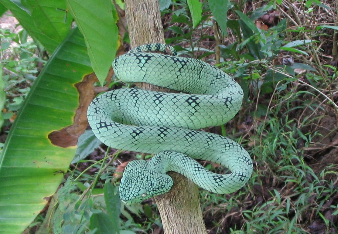 I snake found in Barangay Bolebak, Lebak, Sultan Kudarat, Philippines. The local, mostly Ilonggos (Language: Hiligaynon) call it Dupong or Tropidolaemus wagleri. Another feature is that its body is flat vertically and not horizantally which is opposite of normal snake or of a croc which is wide-bodied. Means it has a narrow body but has height in its thickness .Pale green with black streaks skinned heart-shaped headed 20-inch snake.